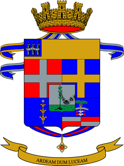 Coat of Arms of the 28° Infantry Regiment; Italian Army.